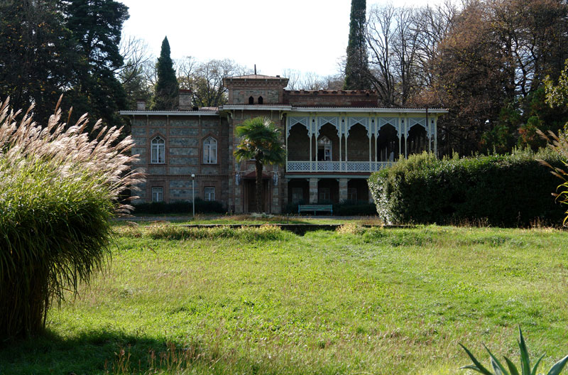 Museum of Alexander Chavchavadze in Tsinandali, Georgia.